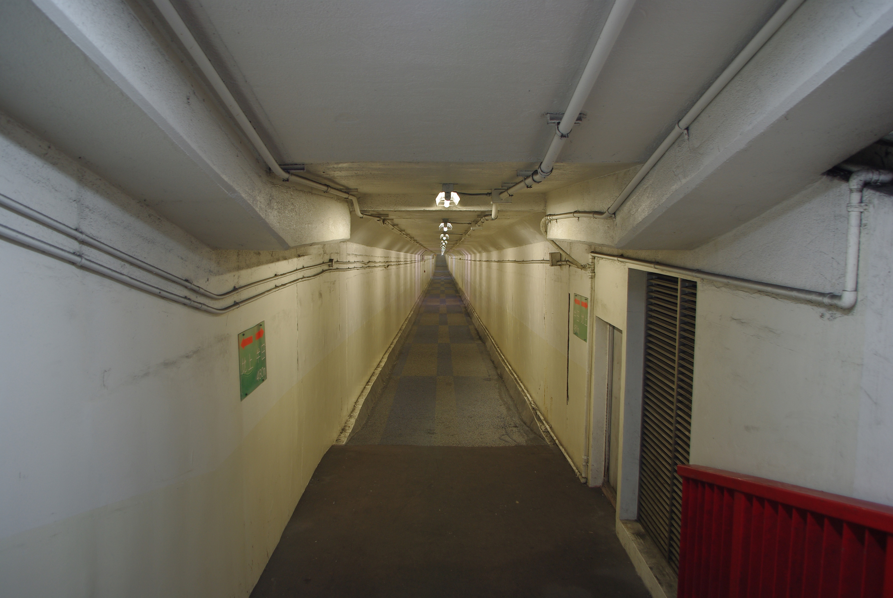 Kinuura Tunnel (Passageway for Pedestrian and Bicycle) in Aichi, Japan